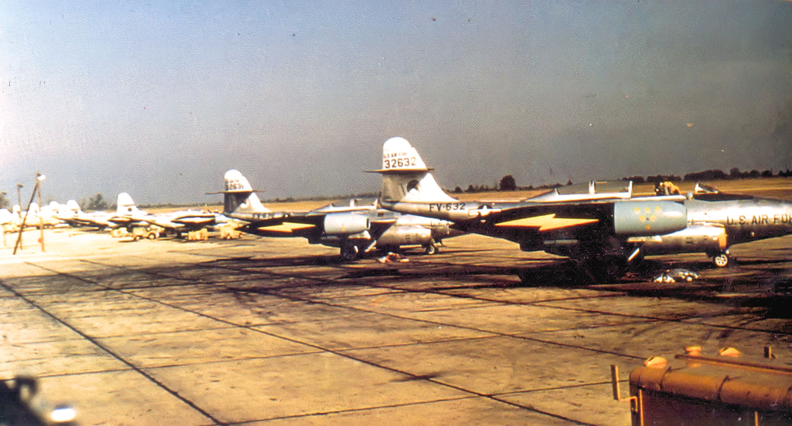 321st Fighter-Interceptor Squadron F-89J Scorpions. 1956, Paine Air Force Base